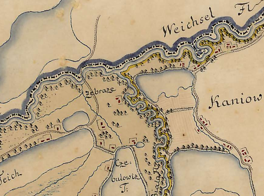 Żebracze, now part of Czechowice-Dziedzice on a map from 1763